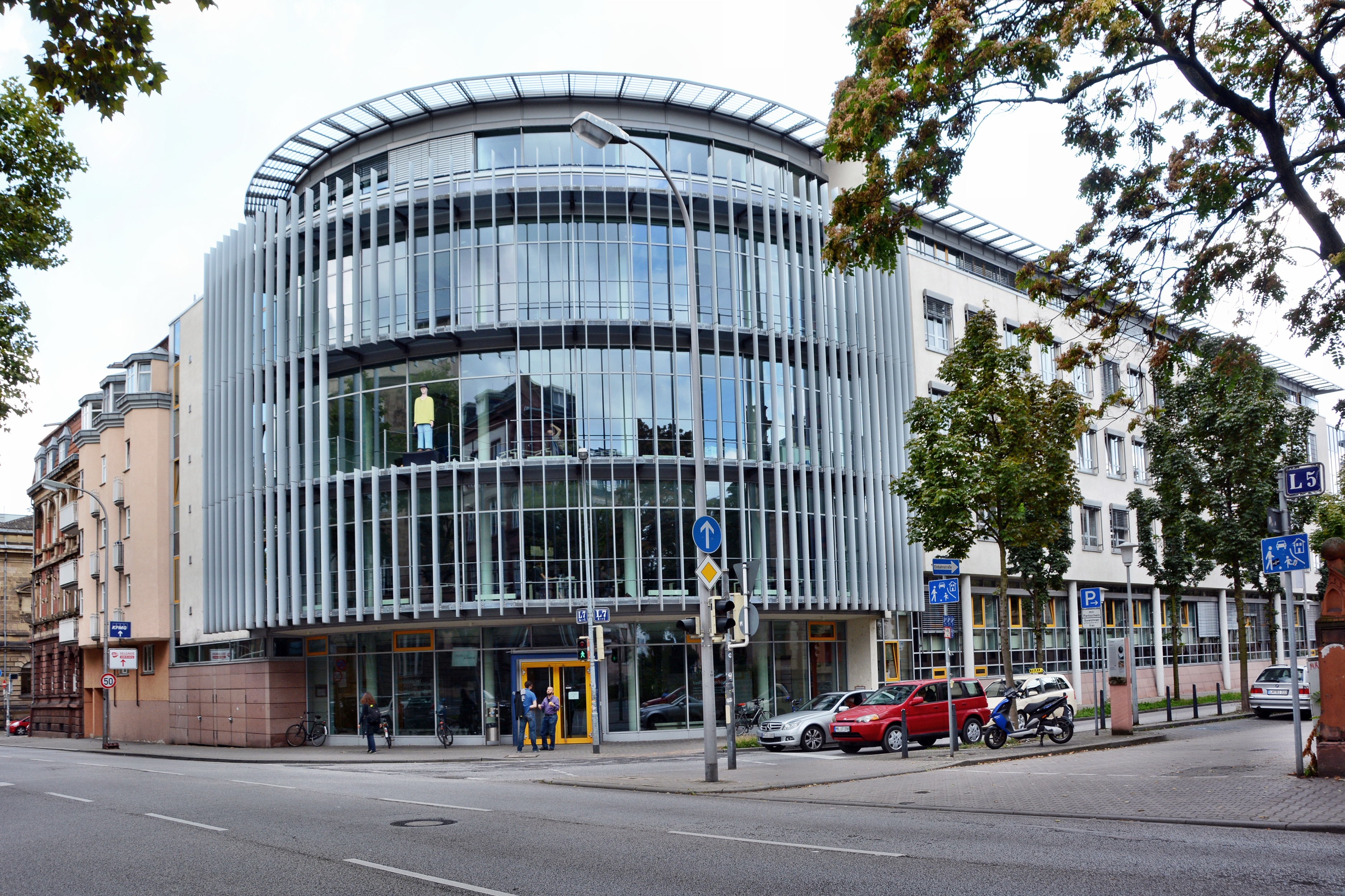 A building of the University of Mannheim (Germany) in Mannheim, L 7